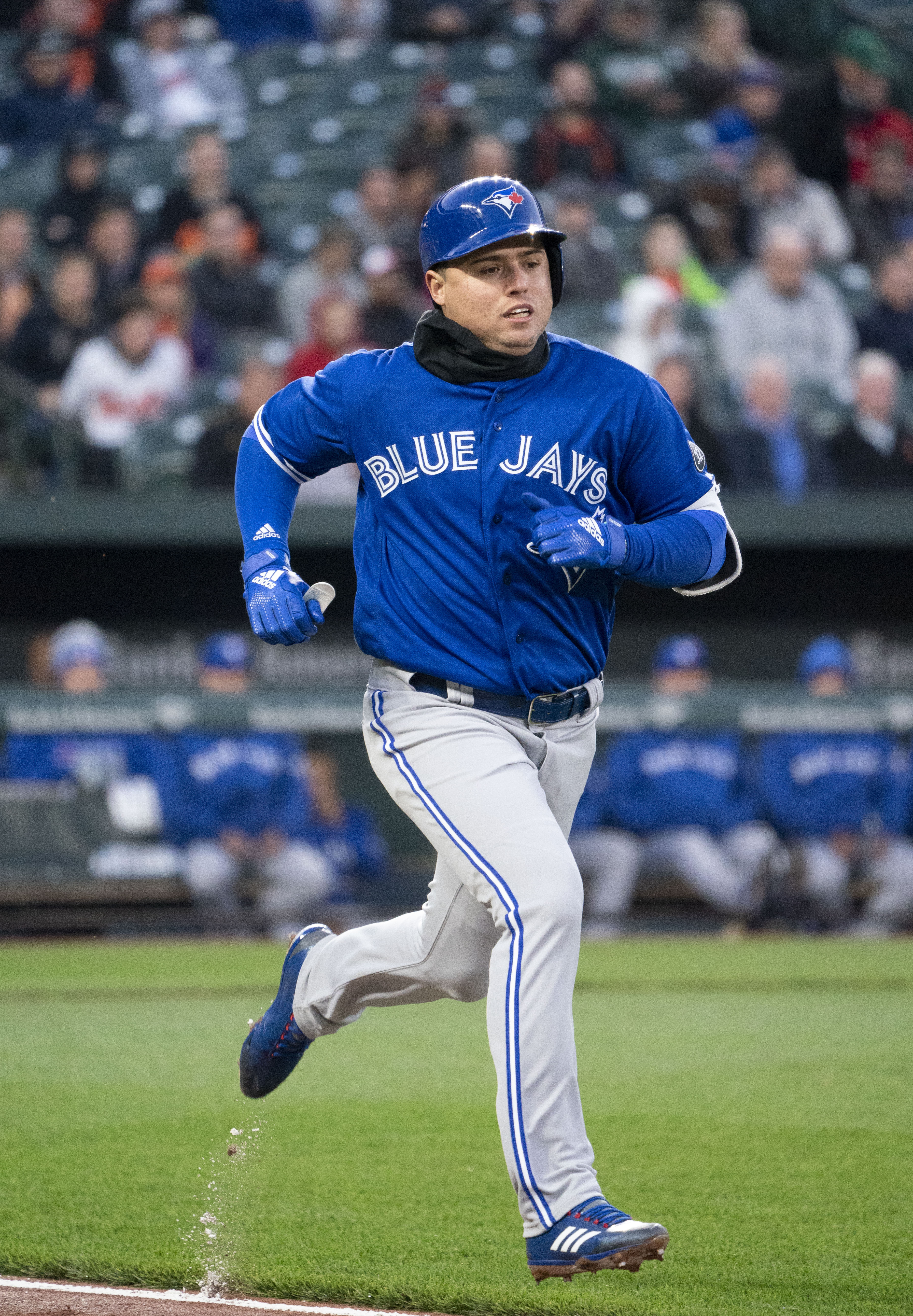 Aledmys Díaz with the Toronto Blue Jays on April 11, 2018